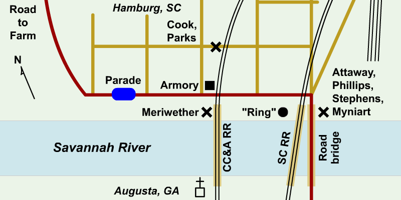 Location Map for the Hamburg massacre, in South Carolina on July 8, 1876